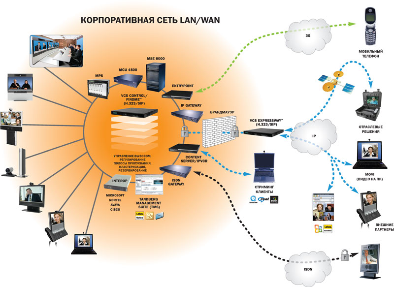 Lan_example